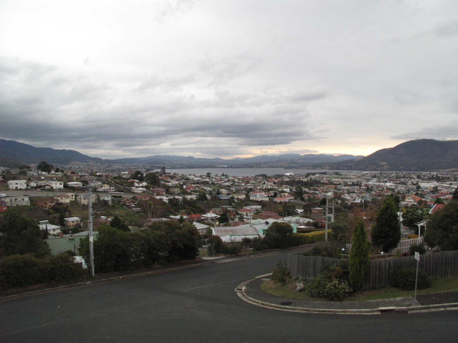 An overview of Moonah, a northern suburb of Hobart. Photo taken by Nick carson in May 2008.